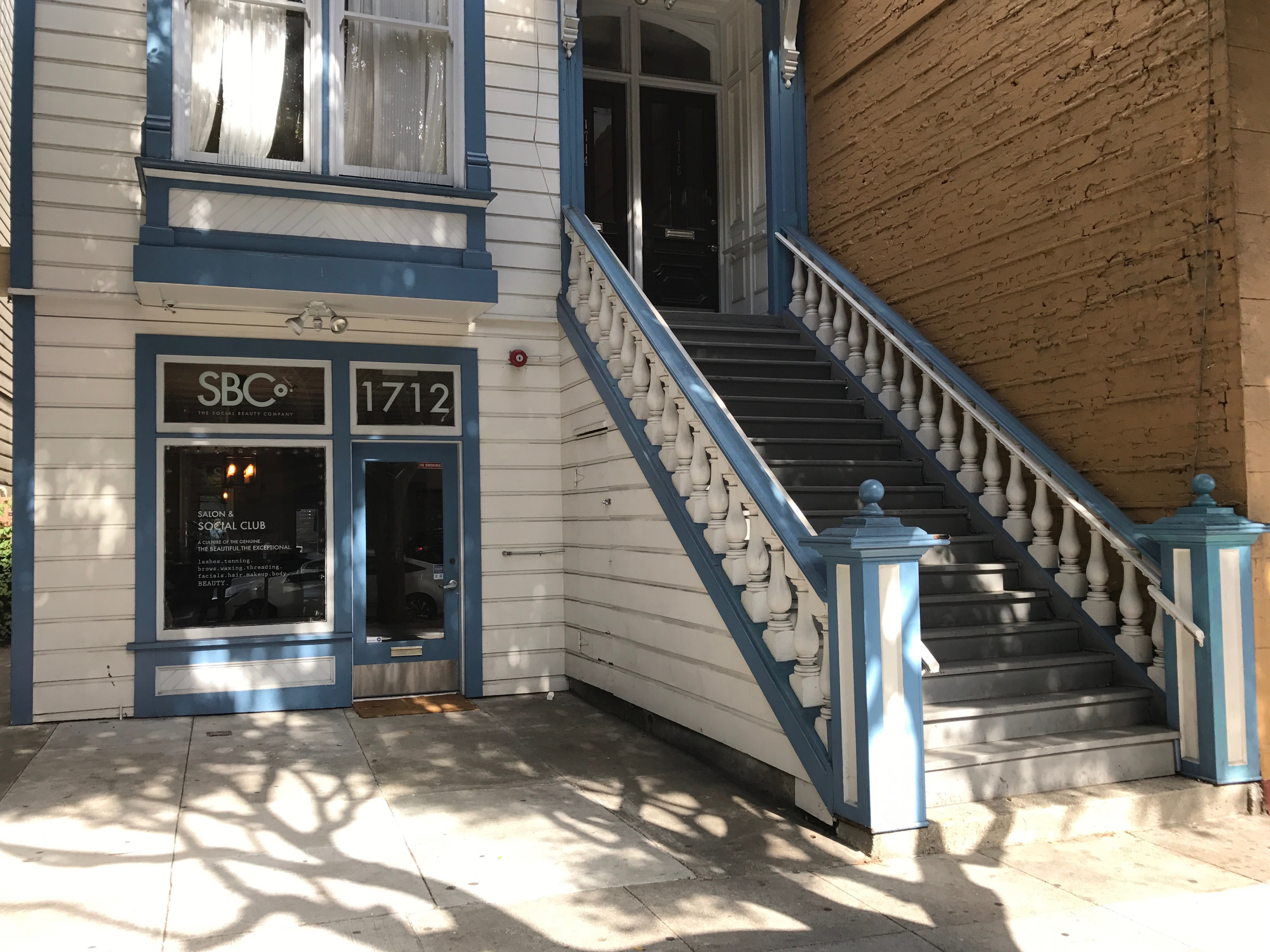 1712 Fillmore Street is on the list of San Francisco Designated Landmarks for its history as Marcus Books and Jimbo's Bop City.